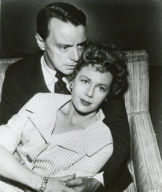 Harry Townes & Randy Stuart in the TV series One Step Beyond, episode Anniversary of a Murder - publicity still (cropped)